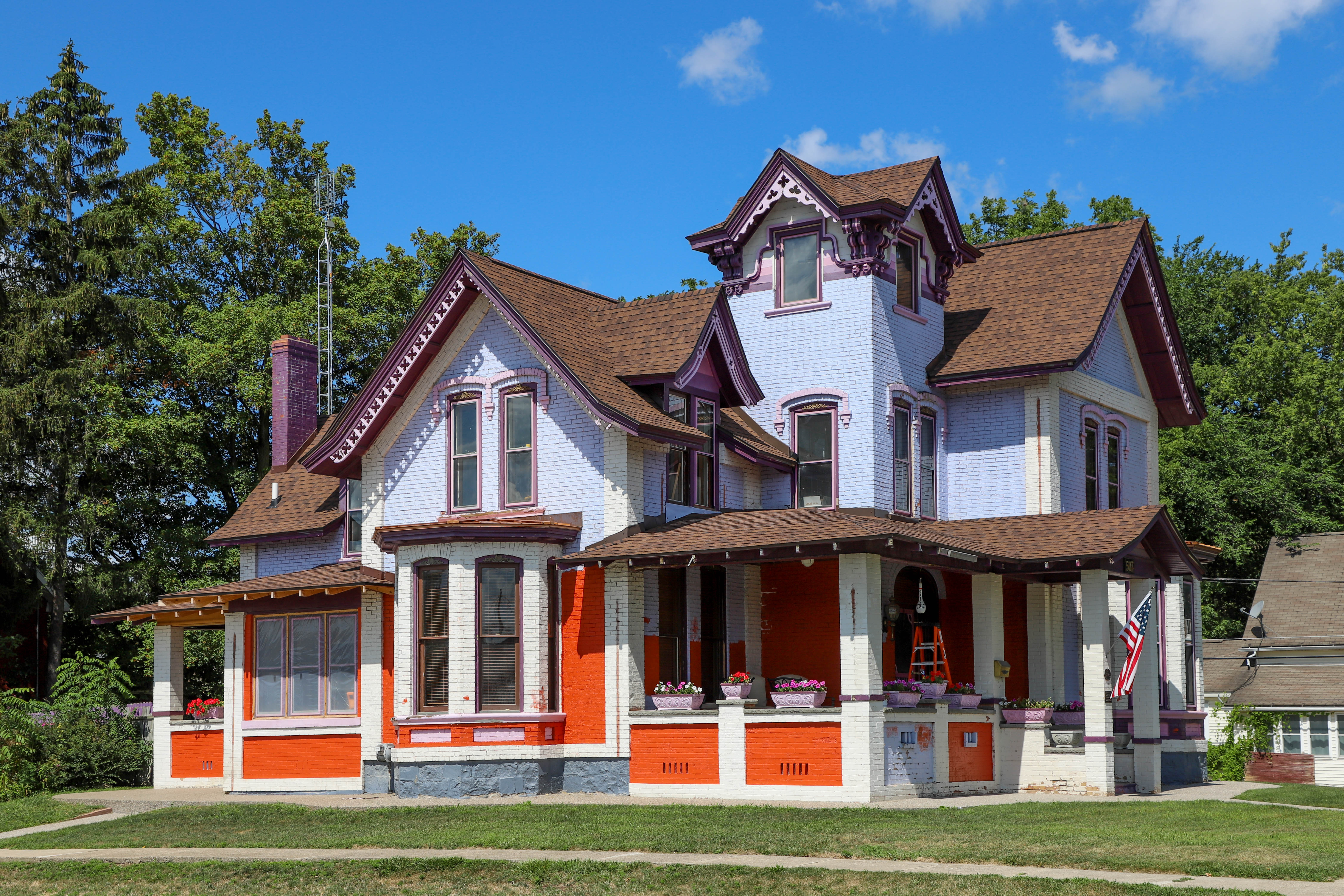 The William H. and Sabrina Watson House, a single-family home located at 507 Cedar Street, Lapeer, Michigan. It was likely constructed 1878-79 on the site of an earlier home, and was one of the first Queen Anne-style houses in Lapeer. It was listed on the National Register of Historic Places in 1985.